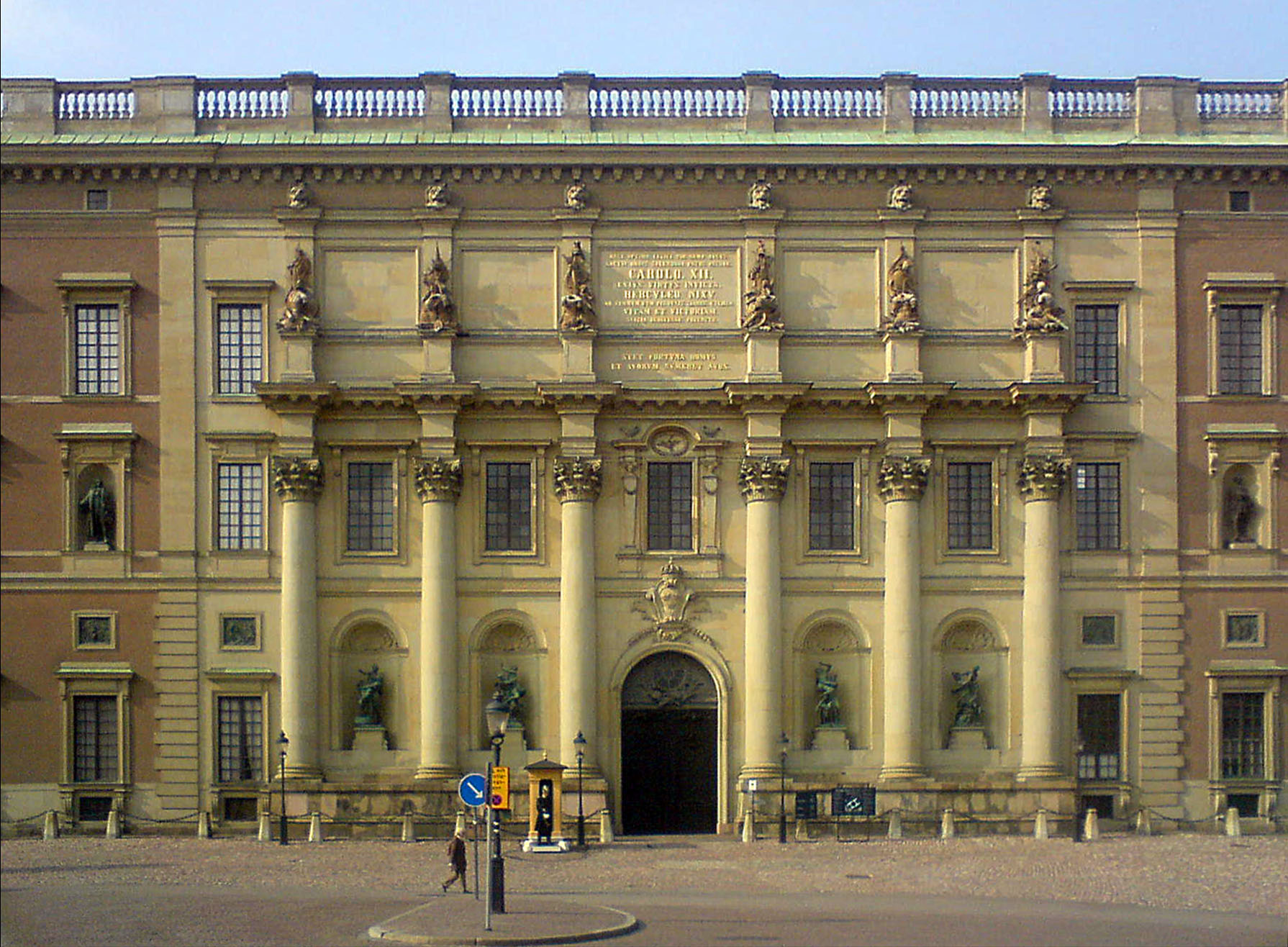 The south facade of the Royal Palace in Stockholm